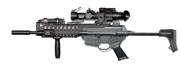 K1